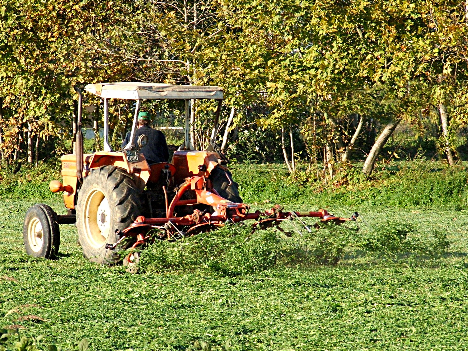 Hay tedder